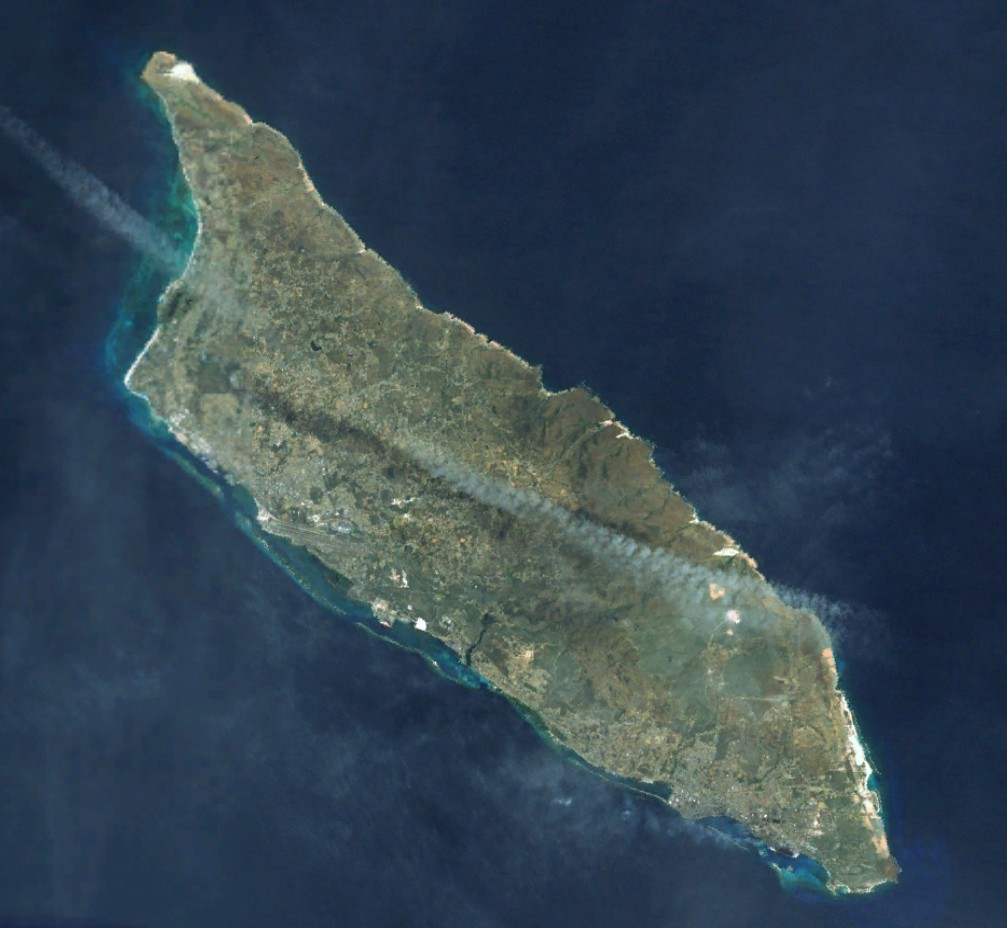 Satellite view of Aruba